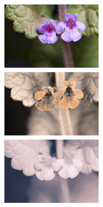 Comparison of a Ground Ivy (Glechoma hederacea) flower in visible light (top), ultraviolet light (middle), and infrared light (bottom). In visible light the flower appears violet with a darker purple colour around the throat. In ultraviolet light the flower appears very similar, with a darker area around the throat. In infrared the flower's appearance is monotone. There is no dark area around the throat and the brightness of the flowers is matched by that of the plant's leaves.